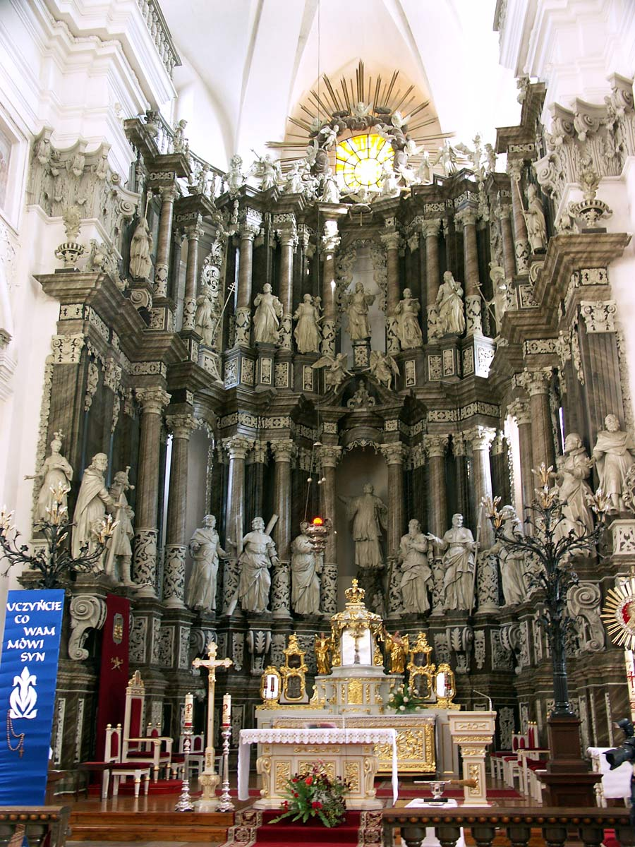 The High altar of the Catholic church of St. Francis Ksaver